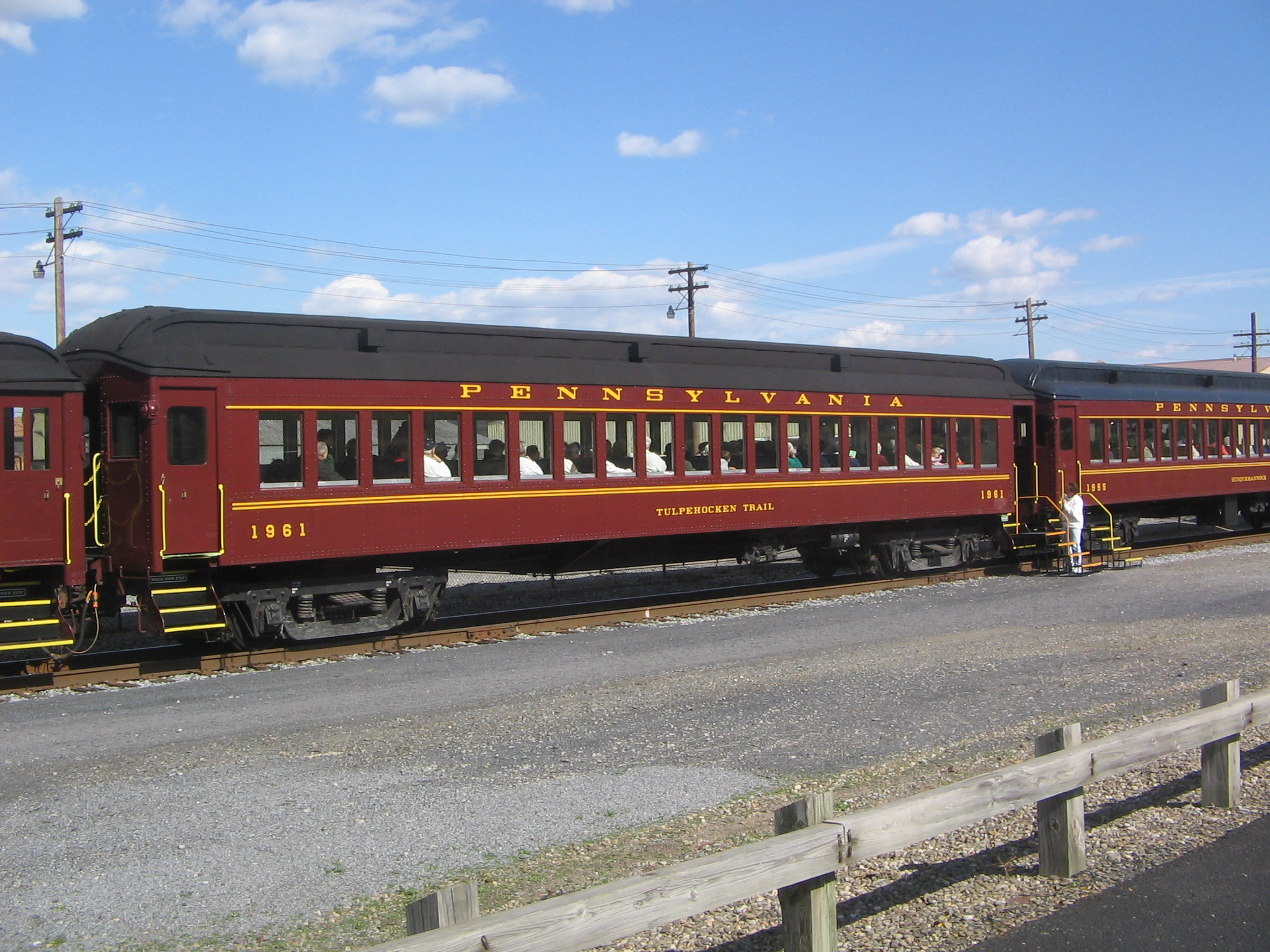 1920's era restored Pennsylvania Railroad Passenger on the Lycoming Valley Railroad at the start of a flaming fall foliage excursion in Williamsport, Lycoming County, Pennsylvania, USA. These cars are also used on the North Shore Railroad and the Shamokin Valley Railroad for tourist excursions.